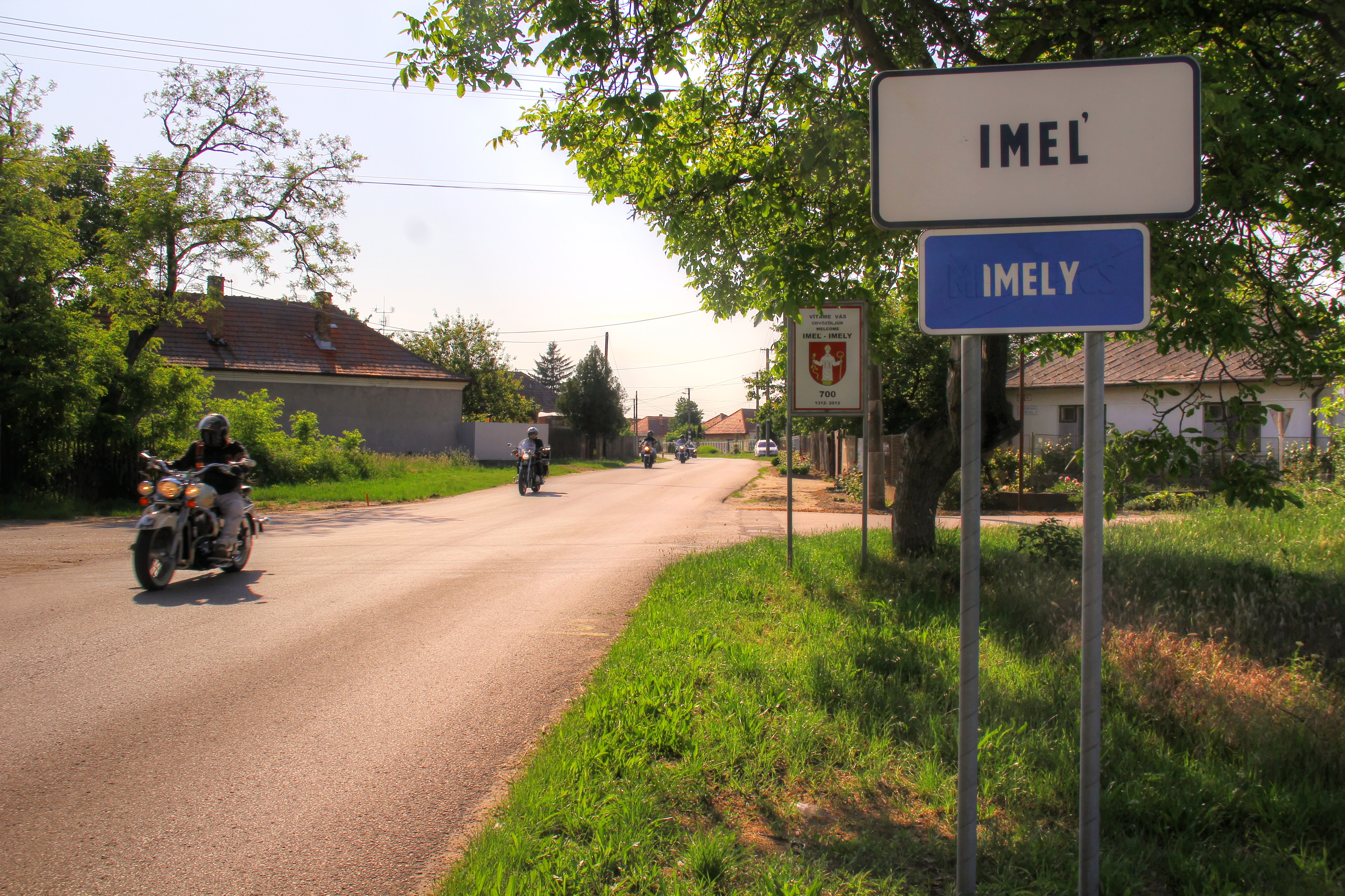 An entrance to the village Imeľ